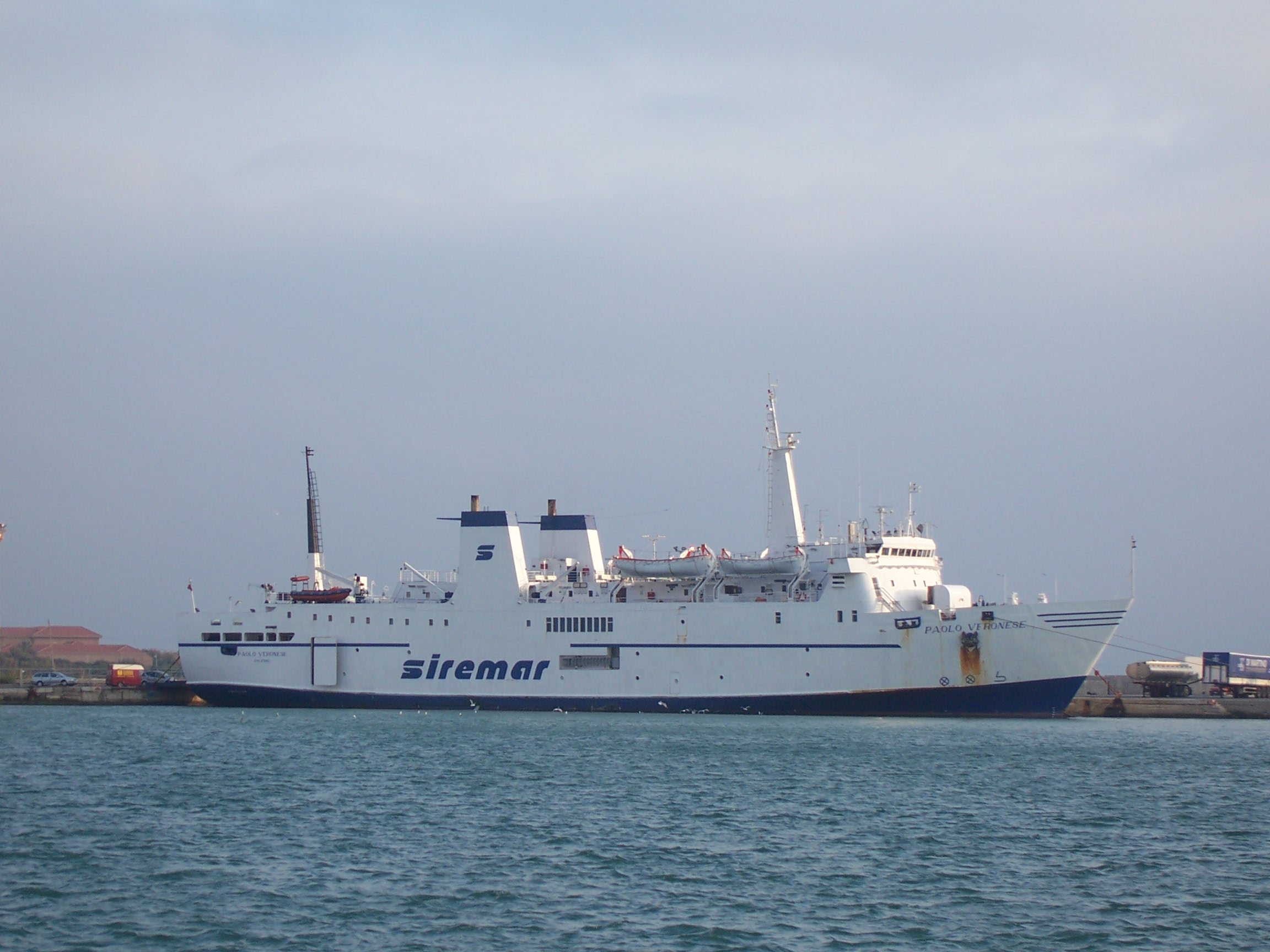 Ferry Paolo Veronese at Trapani Harbour